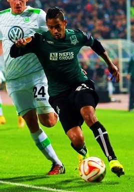 Ricardo Laborde